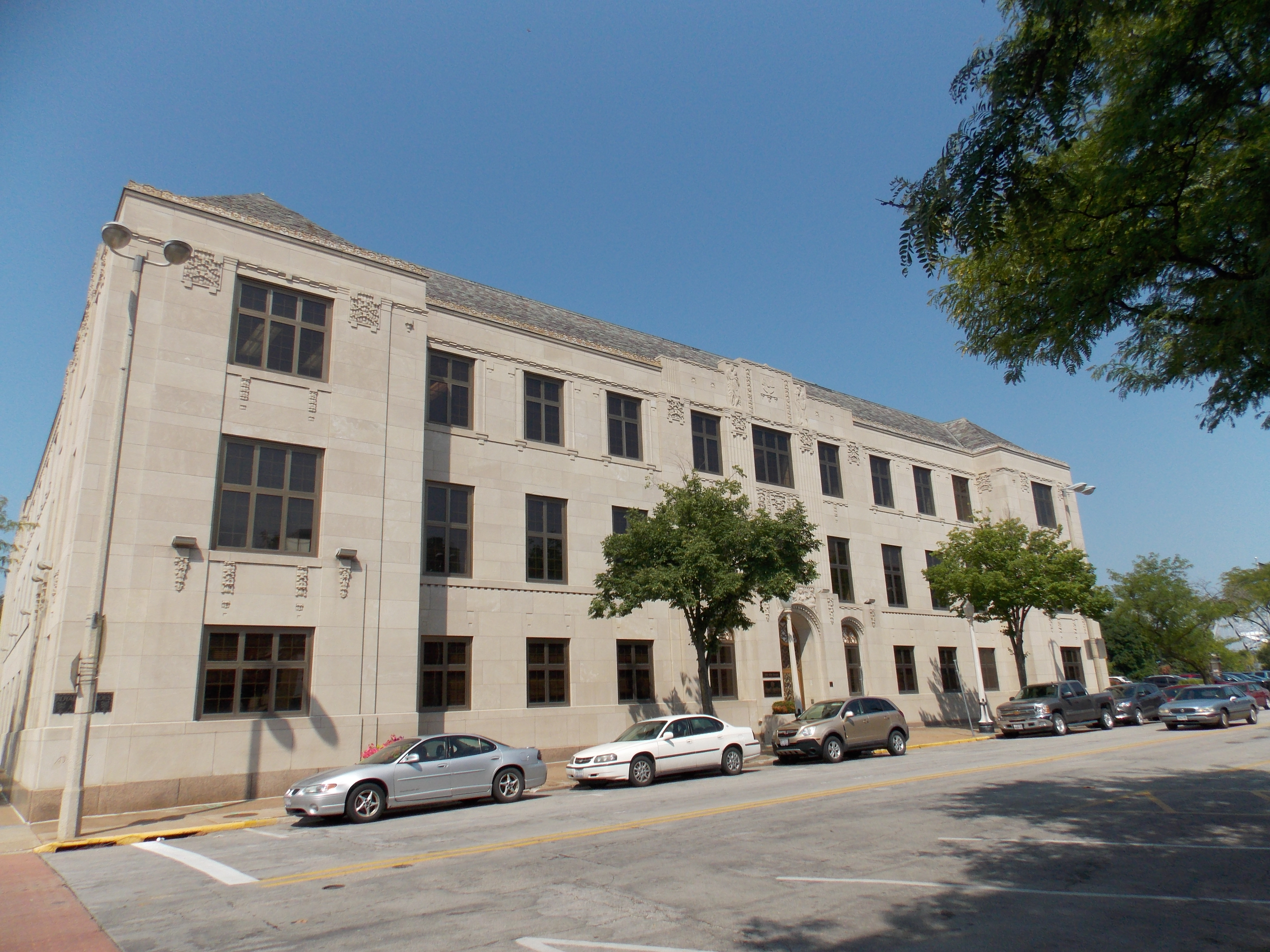 The home office of Royal Neighbors of America, a fraternal insurance company, in downtown Rock Island, Illinois.